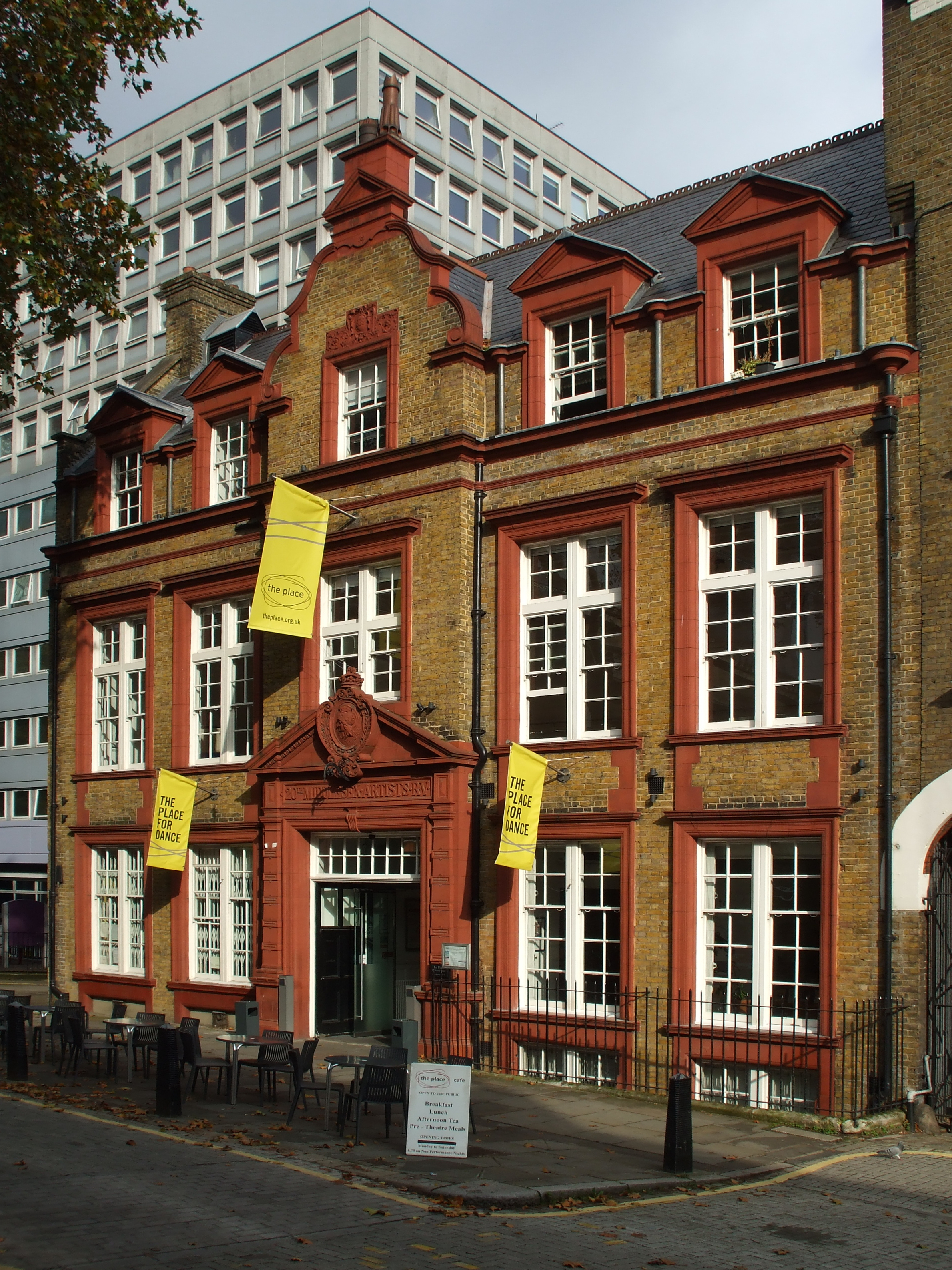 1888-9 to designs of Sir Robert William Edis, was also colonel of the volunteers. Front of yellow stock brick with terracotta dressings. Now the Place Theatre. List description: .uk/resultsingle.aspx?uid=1342089 .